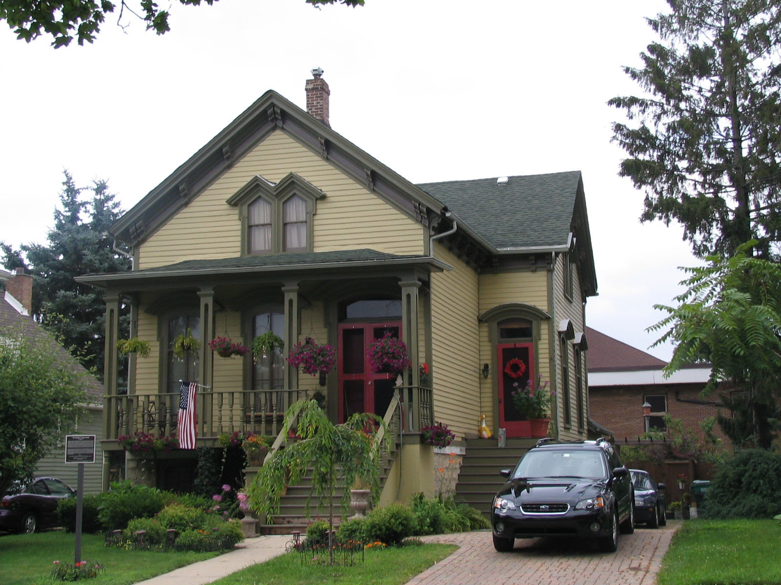 The Joshua P. Young House, Blue Island, IL, Listed on the National Register of Historic Places